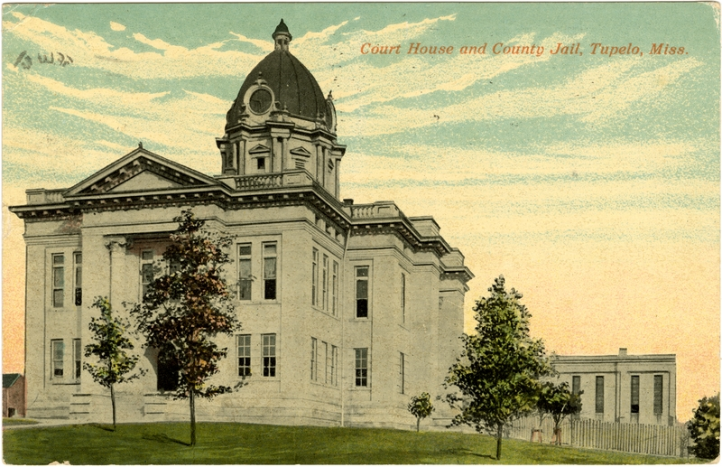 Lee County Courthouse in Tupelo, Mississippi